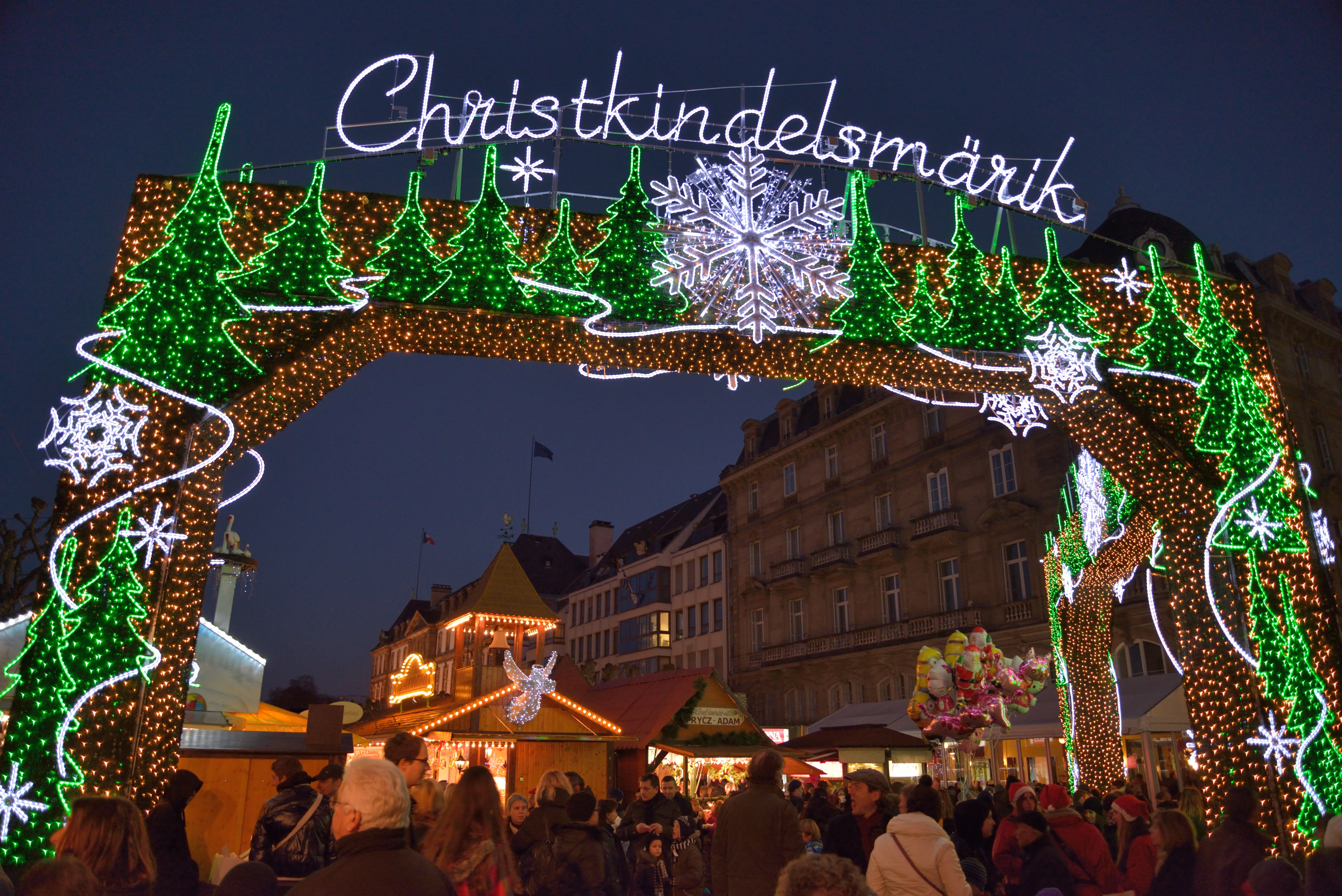 Place Broglie, Strasbourg